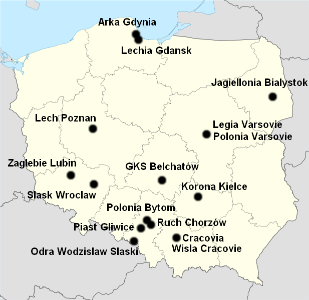 Ekstraklasa 2009/2010 map